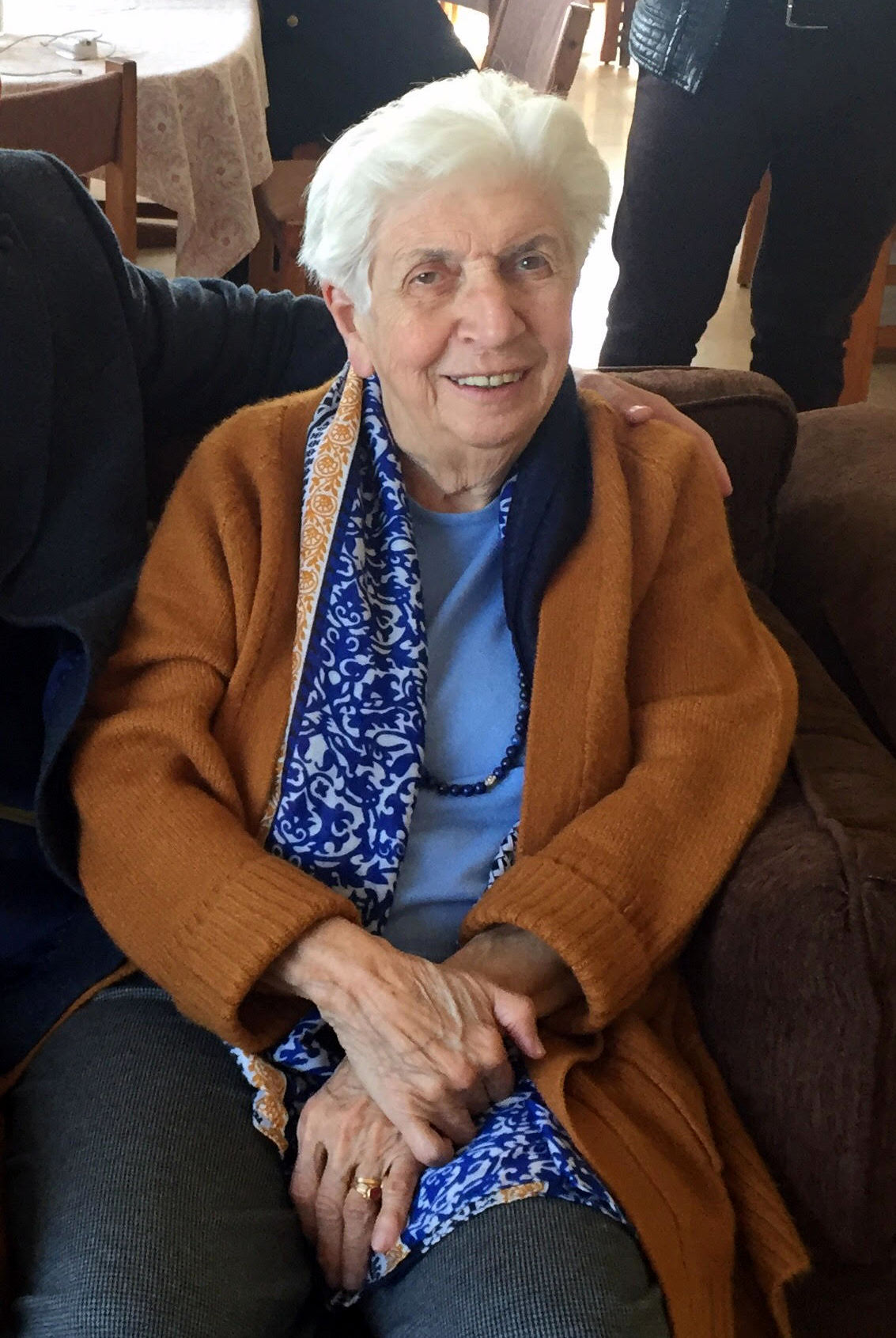 Iraqi archaeologist Lamia al-Gailani at the American Center of Oriental Research (ACOR), Amman, Jordan. This picture was taken on January 16, 2019. She, as a project trainer, was supervising a workshop organized by the Metropolitan Museum of Art, New York, and was conducted at ACOR.